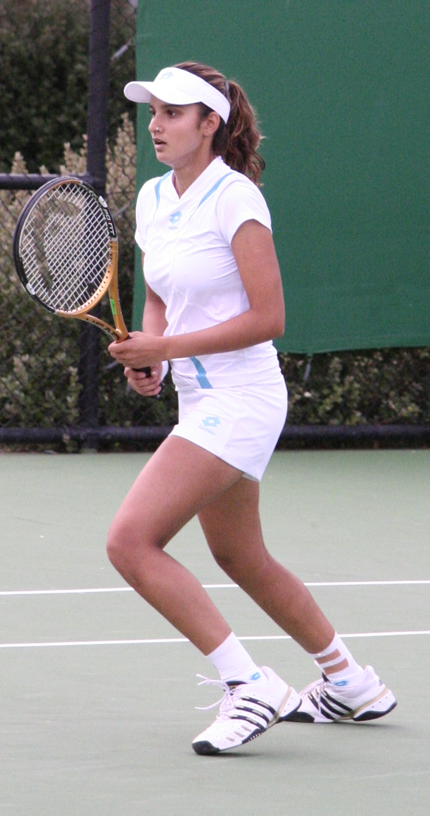 Sania Mirza at the 2007 Australian Open, during her first-round women's doubles match, partnering Anabel Medina Garrigues (they were seeded 10th).